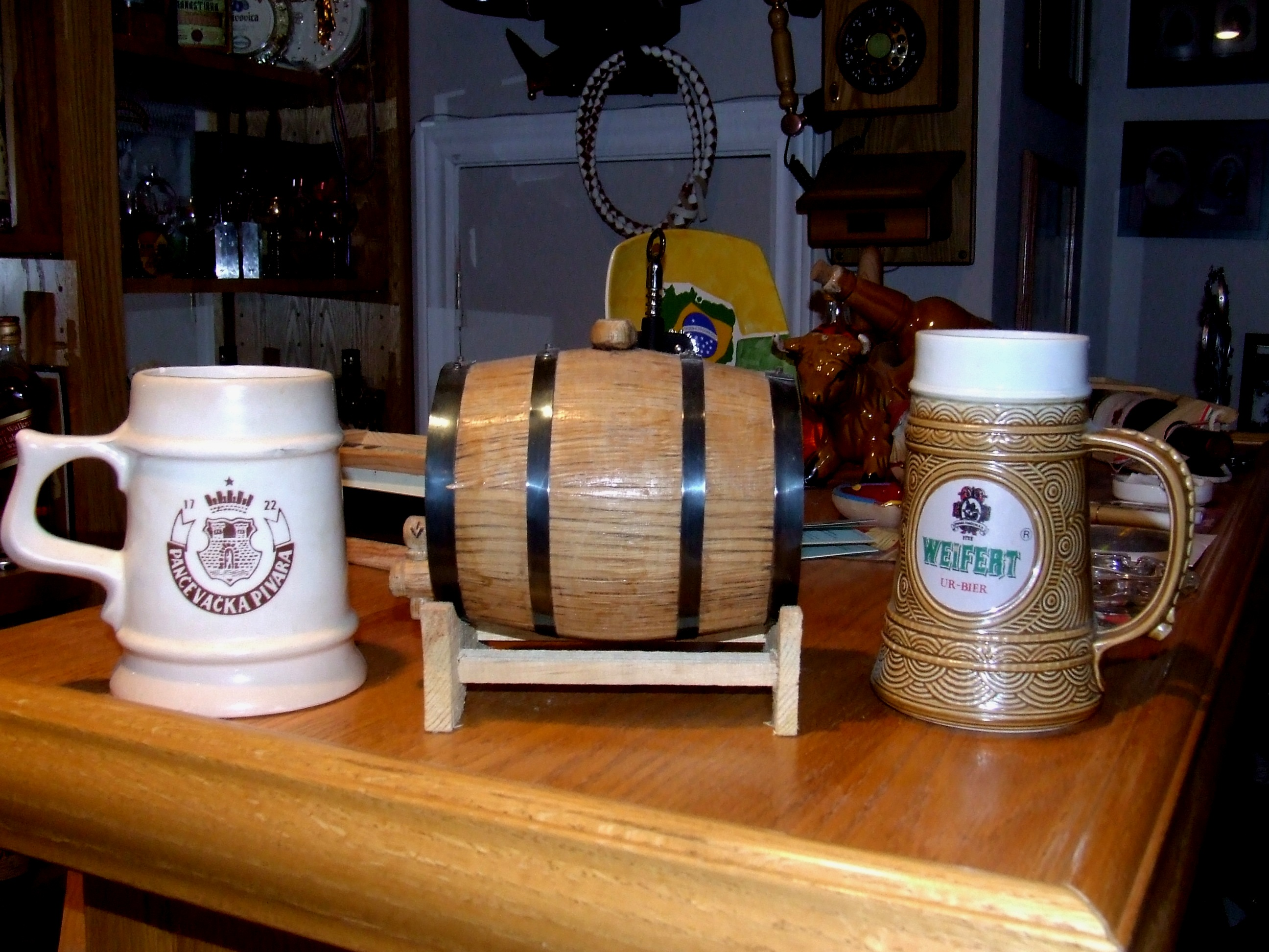 Beer mugs, Georg Weifert, Beer brewery in Pančevo, Serbia